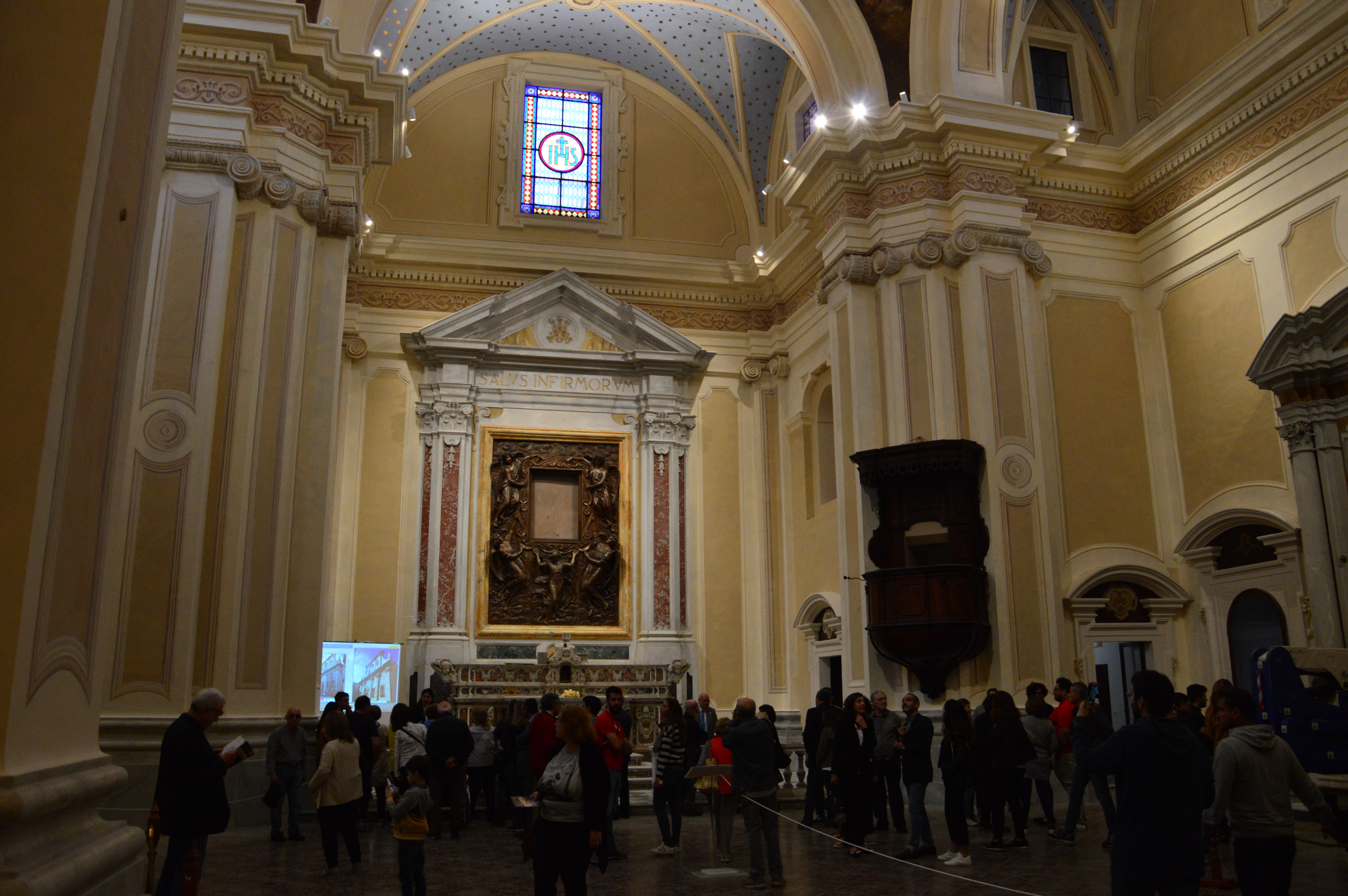 Interior of the Sanctuary of Our Lady of Health in Taranto.